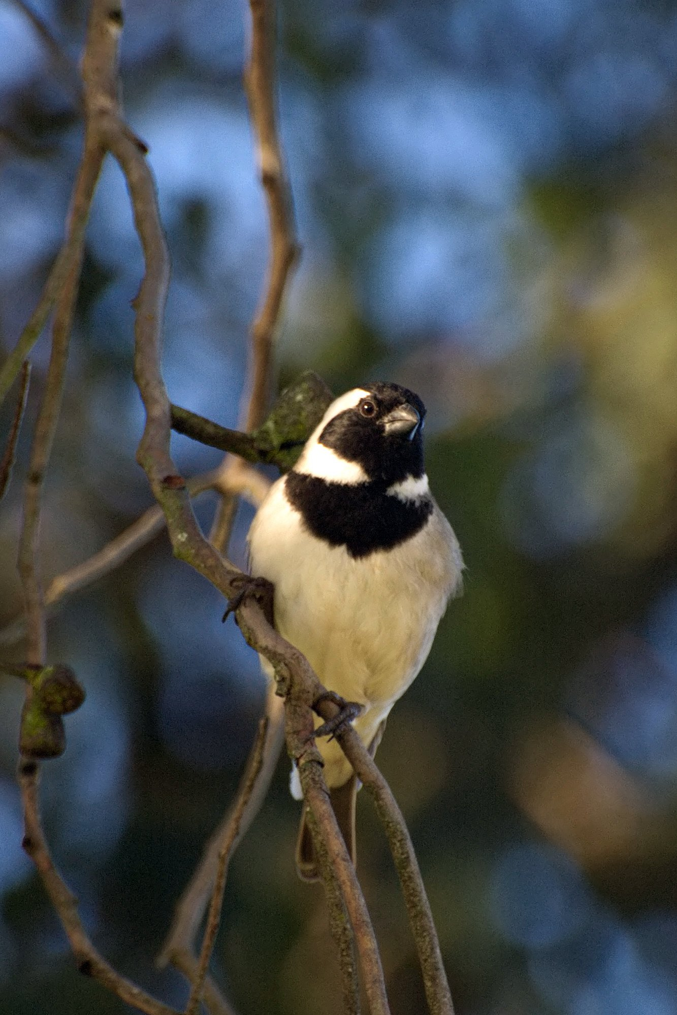 A male Cape Sparrow or Mossie of the subspecies melanurus in Western Cape, South Africa.